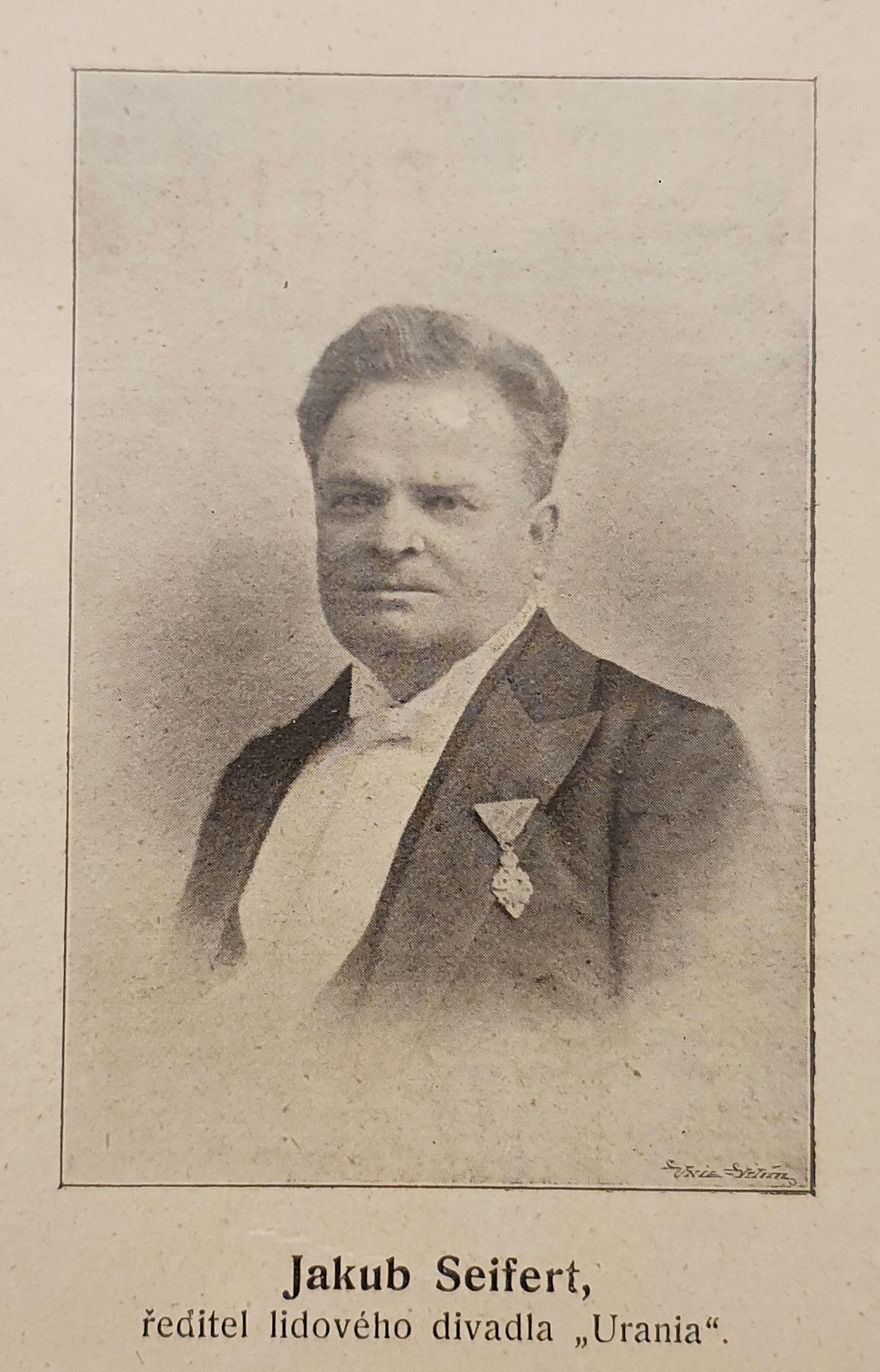 portraited as a manager of Urania theatre